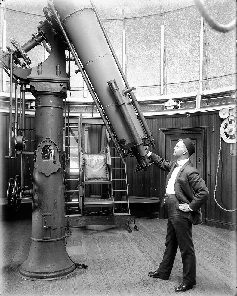 Credit: U.S. Naval Observatory Library George Henry Peters (en:1863–en:1947) is shown at the 12-inch telescope of the US Naval Observatory around en:1920.